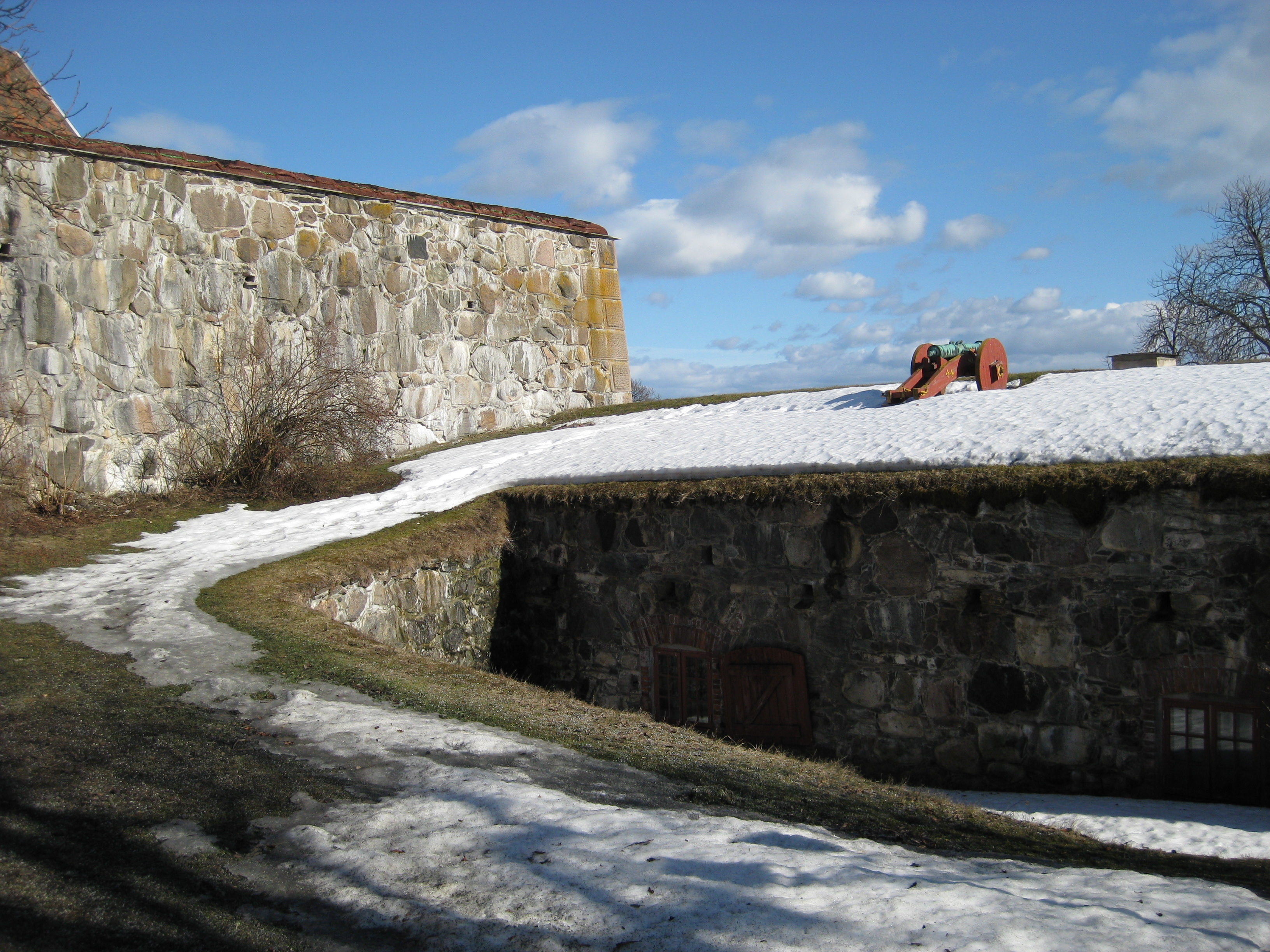 Kongsvinger fortress, outer wall near gate with cannons